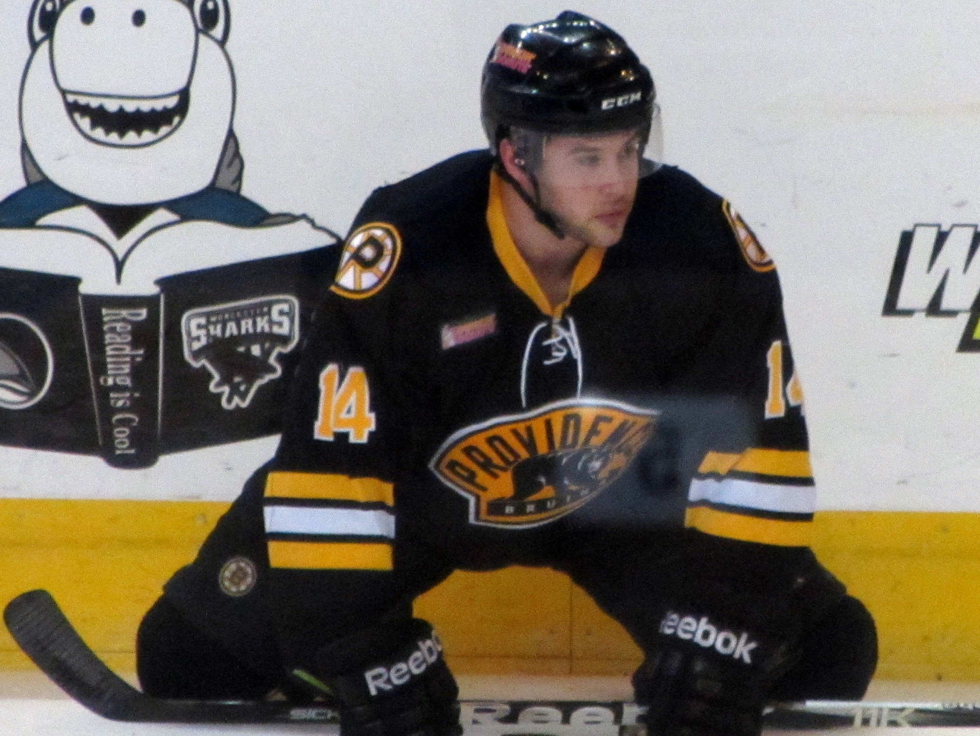 Craig Cunningham of the Providence Bruins jersey.